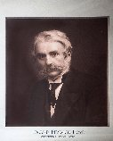 Edward Fenwick Boyd photograph taken before 1889. The digital image of this photograph was made with the permission of the Librarian of the North of England Institute of Mining and Mechanical Engineers in order to place on Wikimedia Commons.